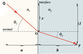 This diagram helps explain Snell's Law.